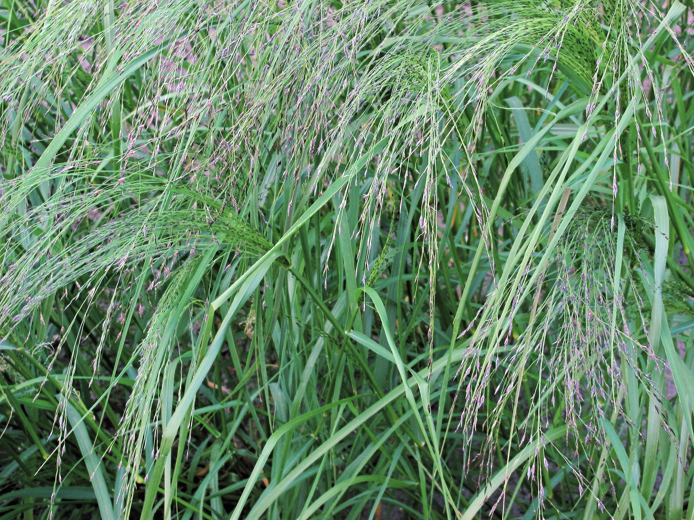 Eragrostis tef (Teff)